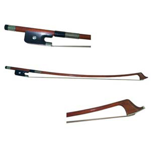 French-style double bass bow.